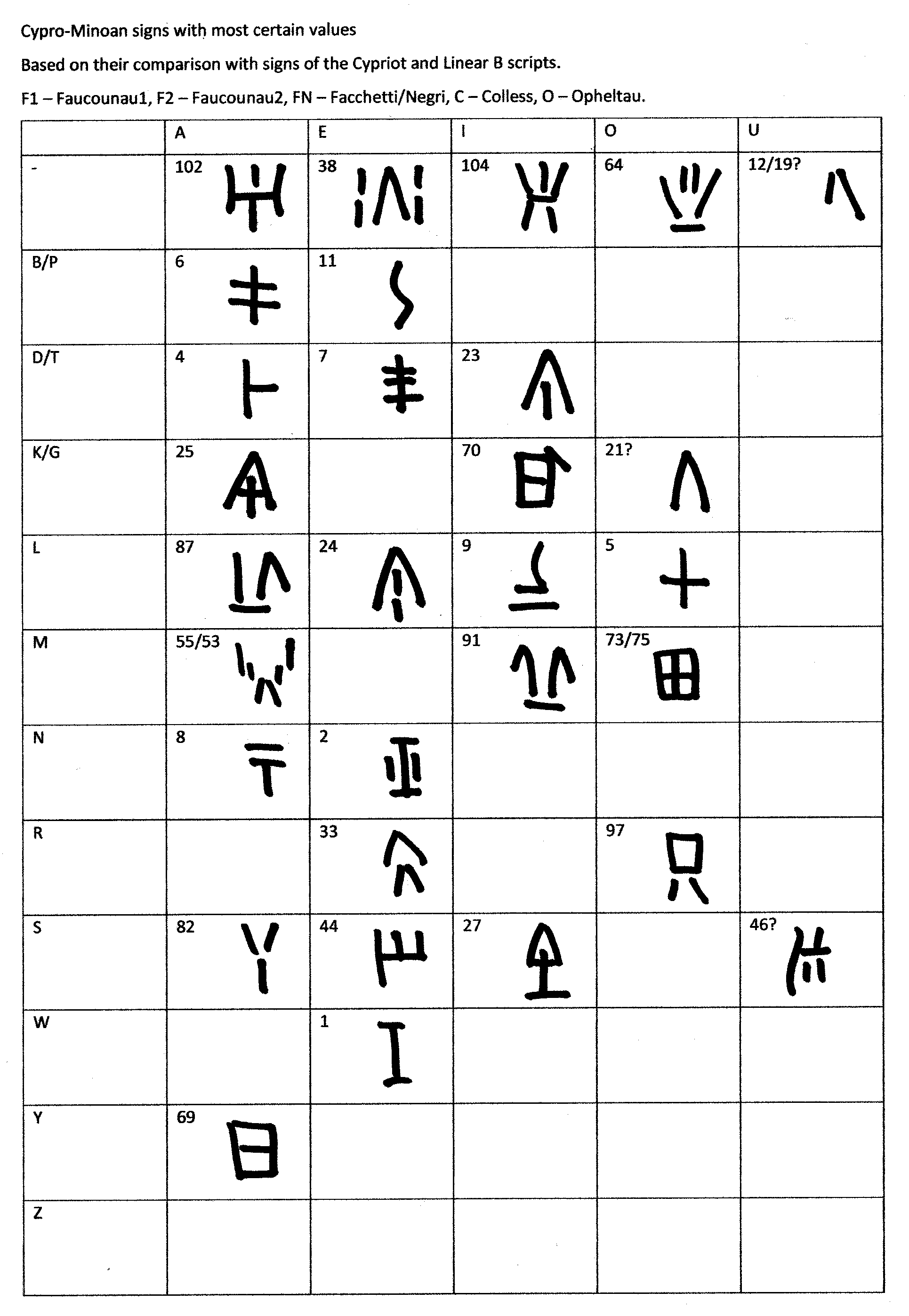 The current (2015) consensus about values of certain CM signs, based on their comparison with the Cypriot signs.